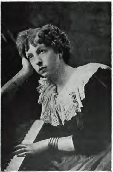 Photograph of French composer Cécile Chaminade